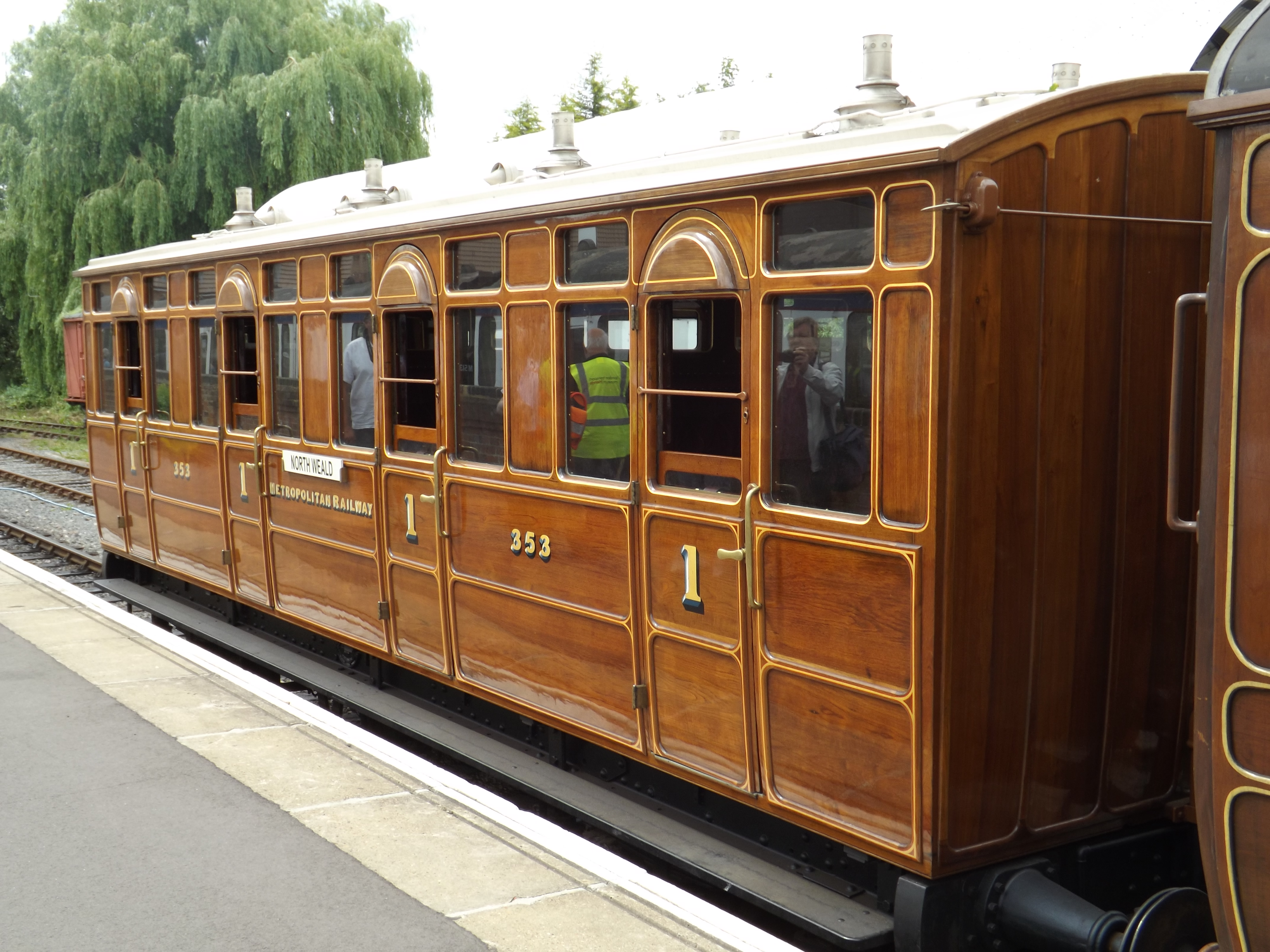 Metropolitan Railway Jubilee carriage No. 353 was restored for the London Underground's 150th year celebrations. Here at Ongar station in July 2013